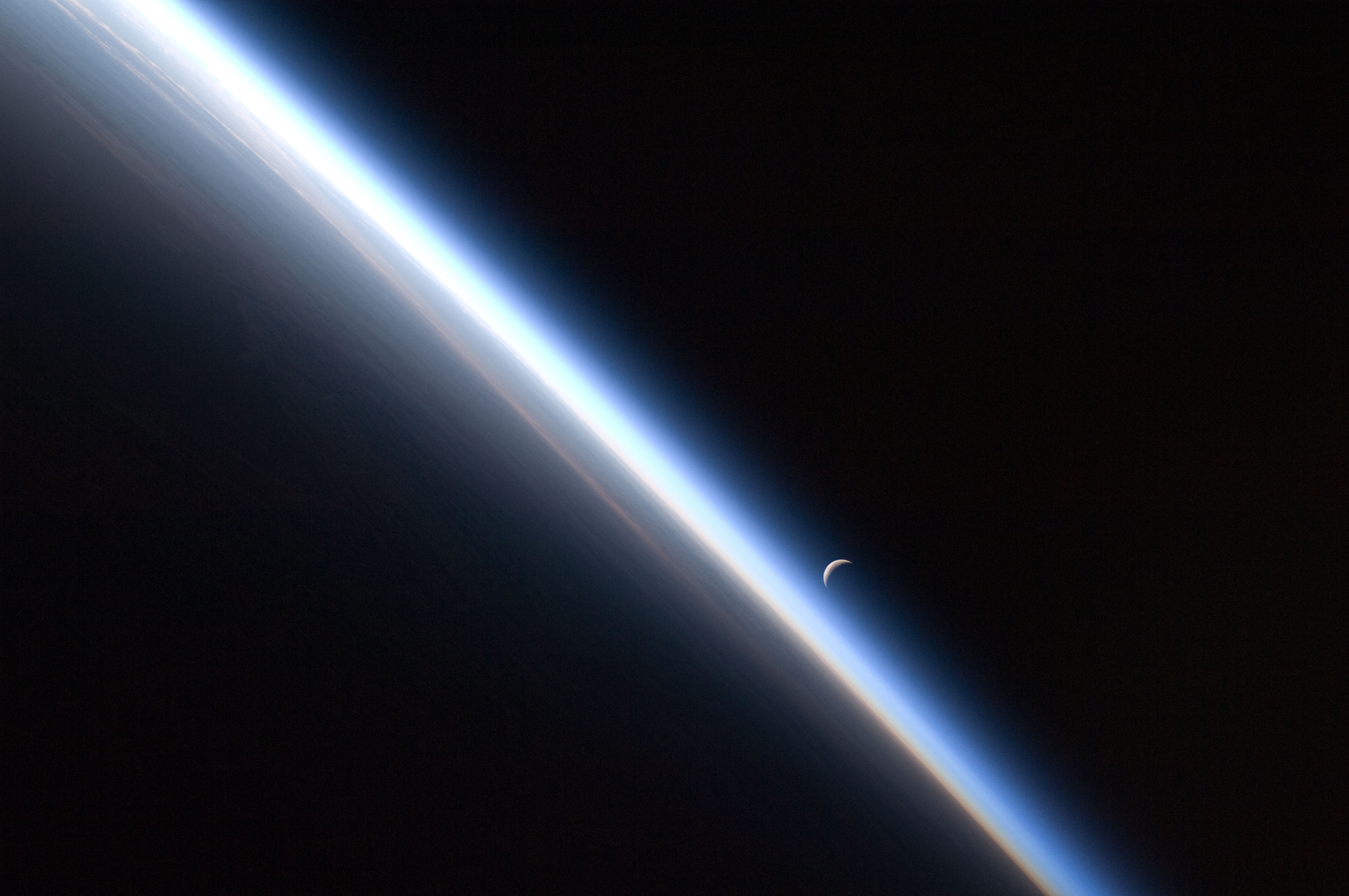 A setting last quarter crescent moon and the thin line of Earth's atmosphere are photographed by an Expedition 24 crew member as the International Space Station passes over central Asia.